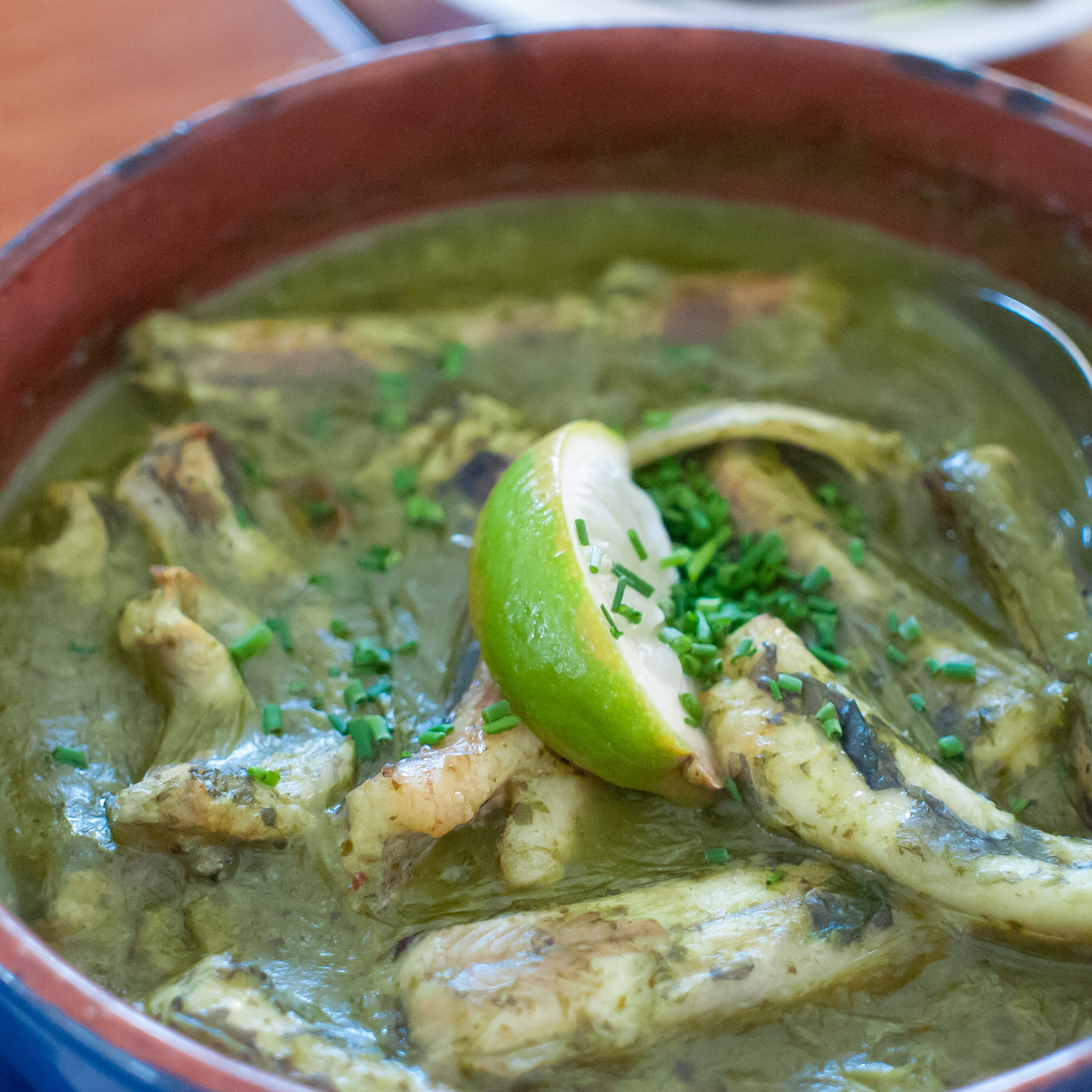 Paling in't groen (lit. "Eel in the green") at a restaurant in Yerseke, Zeeland. The dish is made by simmering river eels in a sauce of green herbs and spinach. This is originally a Flemish dish but it also often eaten in the Dutch province of Zeeland.